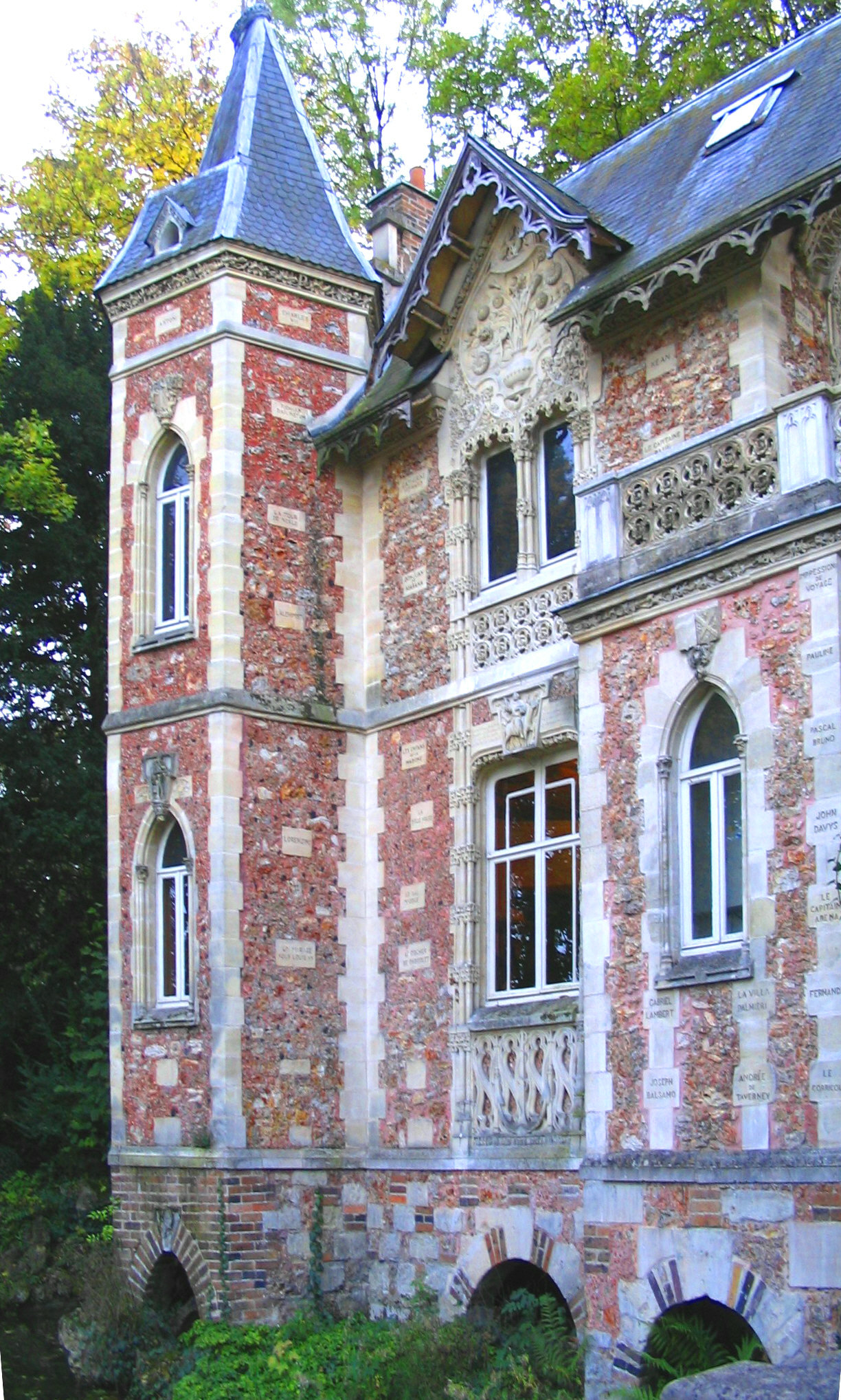 Château d'If: View of the castel of the French novelist Alexandre Dumas at Port-Marly, near Paris, France